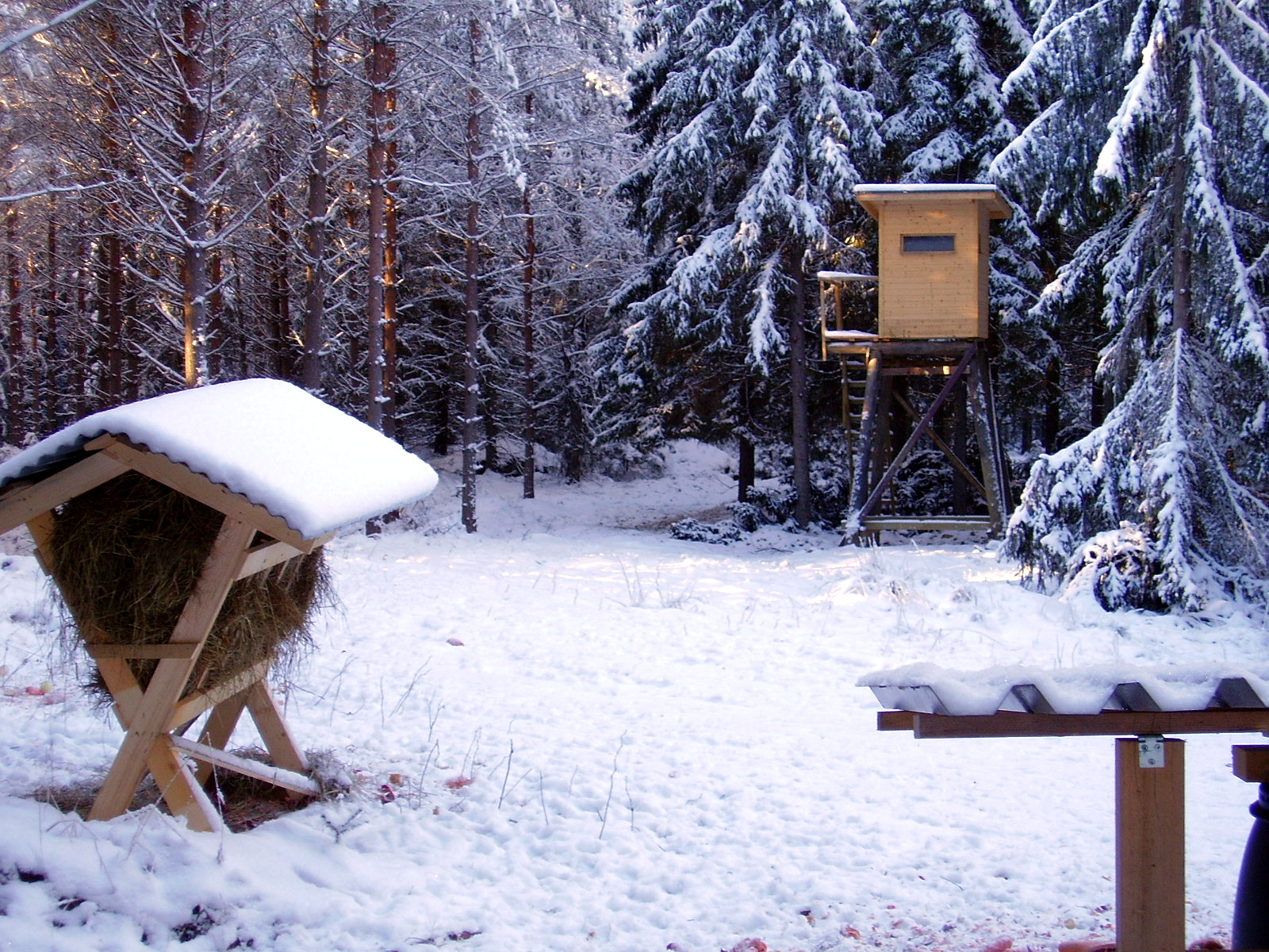 White-tailed deer are fed and shot in the same place.